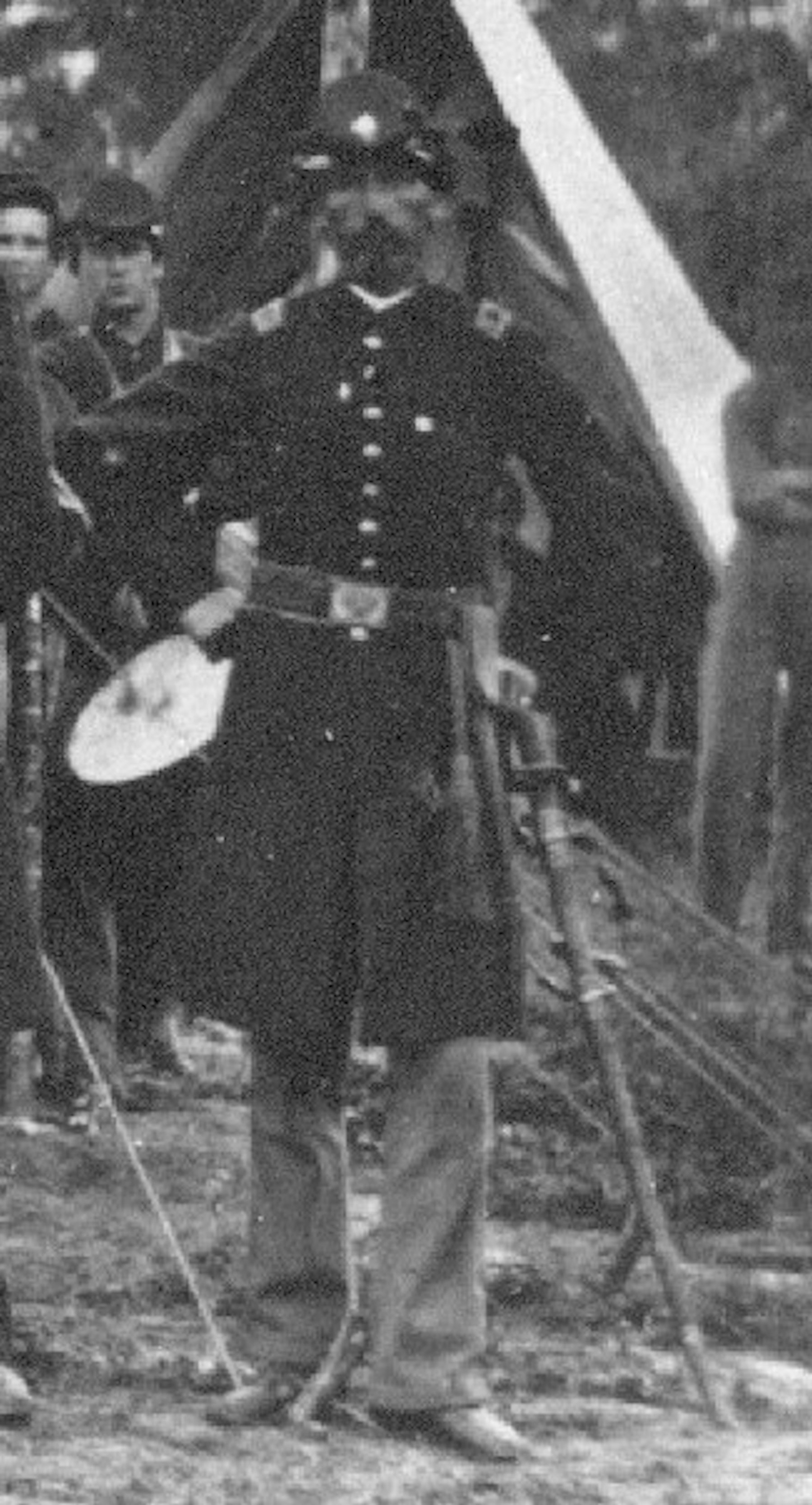 Charles McAnally MoH winner